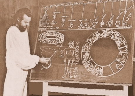 Master Dr. Serge Raynaud de la Ferrière, teaching the theory of astrological ages.